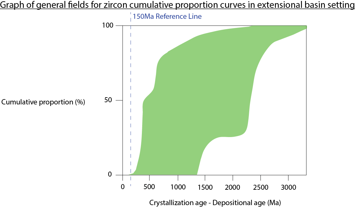 Graph illustrating the generalized zone for cumulative proportional curves of CA-DA in extensional basins